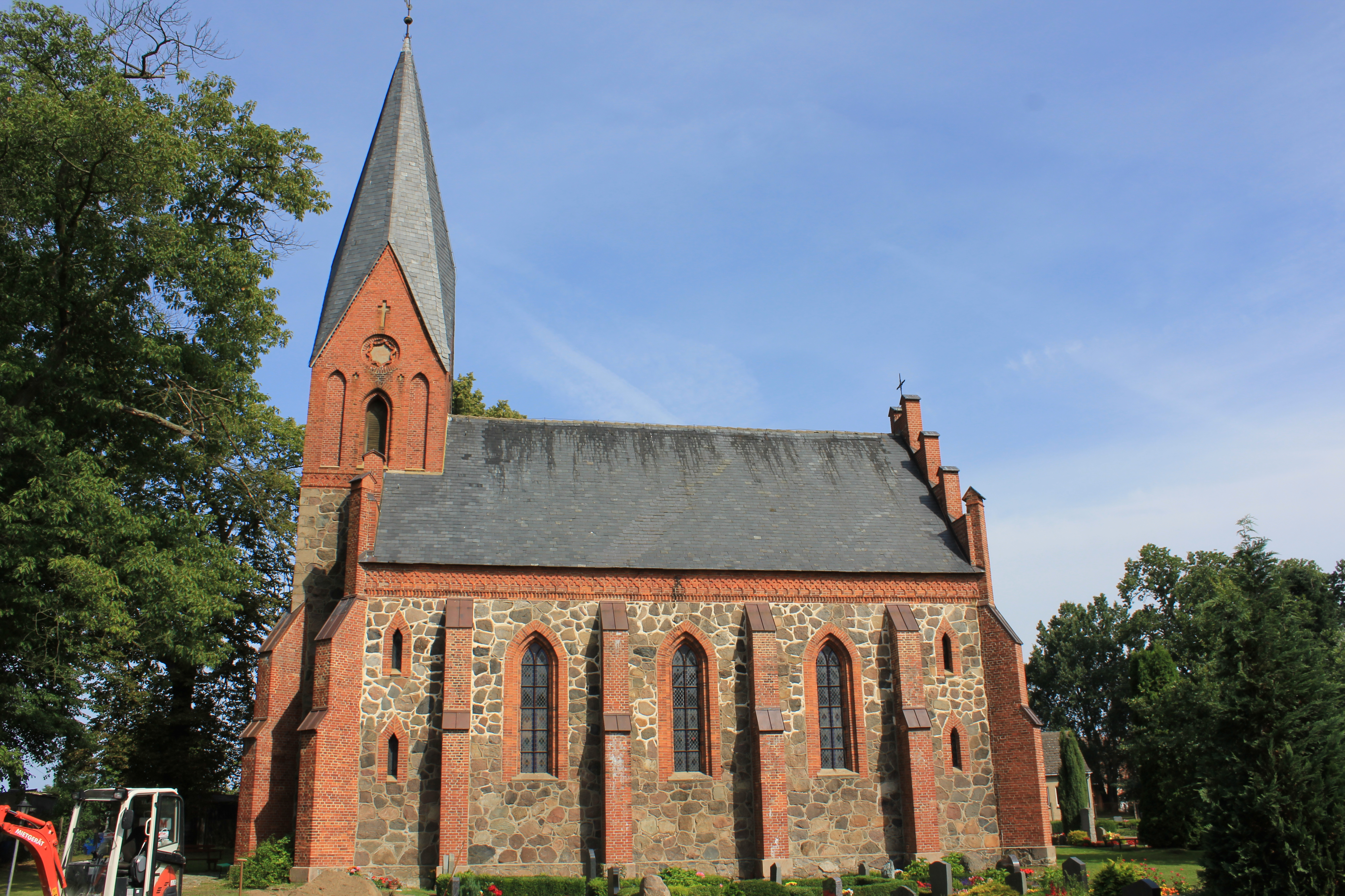 South side of the Church Passow in Germany